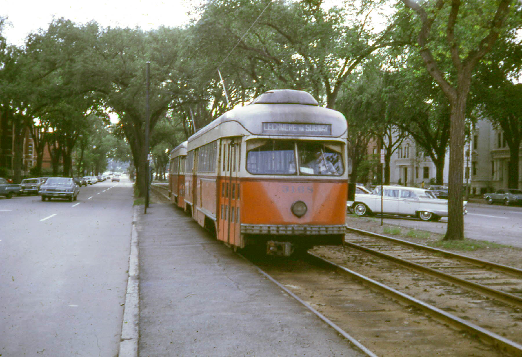 A two-car train of PCCs inbound at Englewood Avenue in June 1967